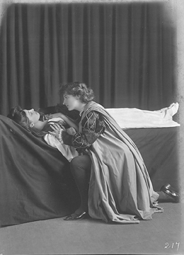 Pleasaunce Baker (Juliet), Mary Nearing (Romeo), in Shakespeare's Romeo and Juliet